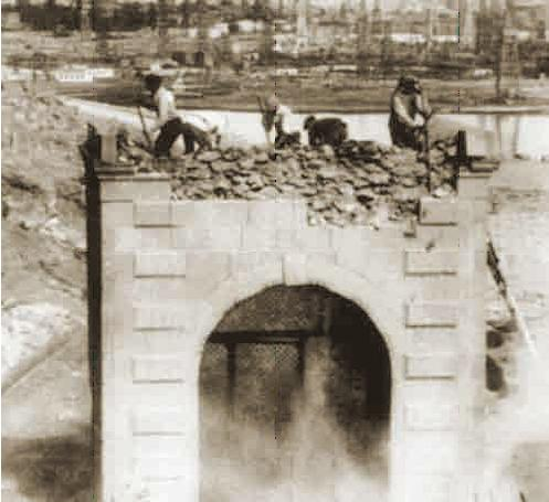 Bibi Eybat mosque in Baku